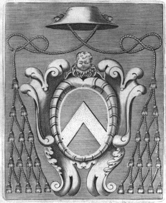 coat of arms of Cardinal Nicolas de Besse (died 1369)